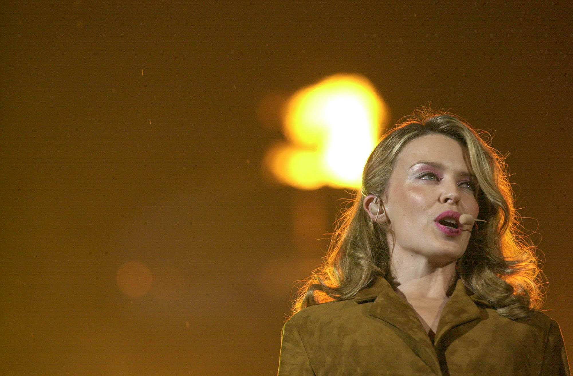 Australian singer Kylie Minogue performing infront of the Paralympic Flame during the Sydney Paralympic Games Opening Ceremony